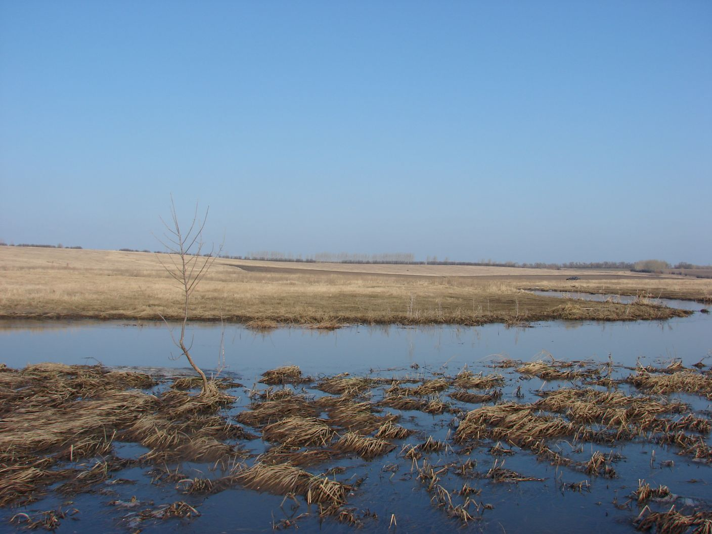 Berezovka River